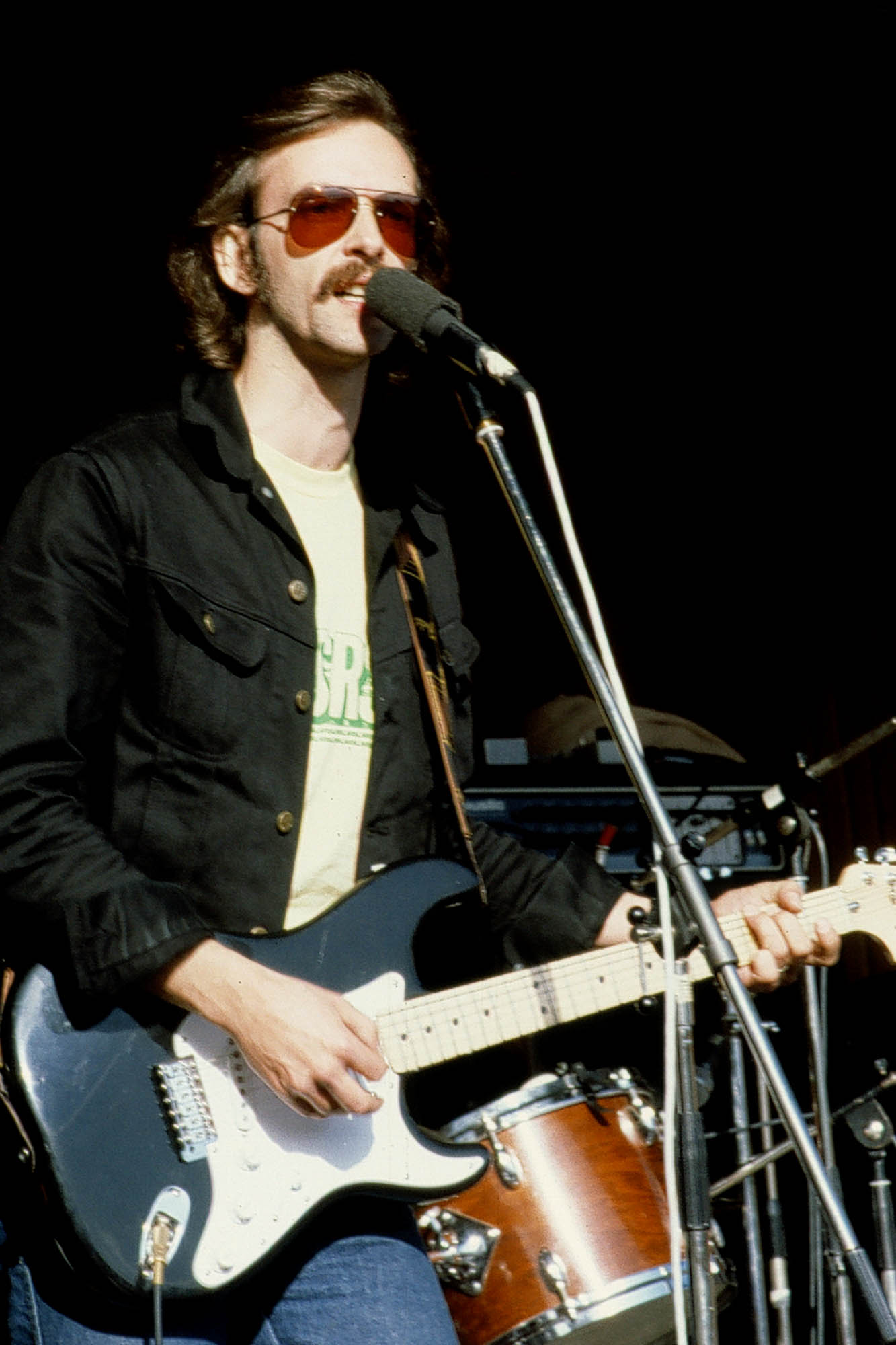 Björn Afzelius at a Festival in Jönköping, Sweden 1984